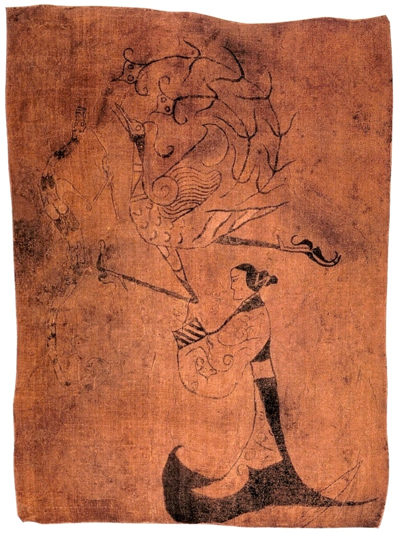 Woman, dragon and phoenix (Old china painting)